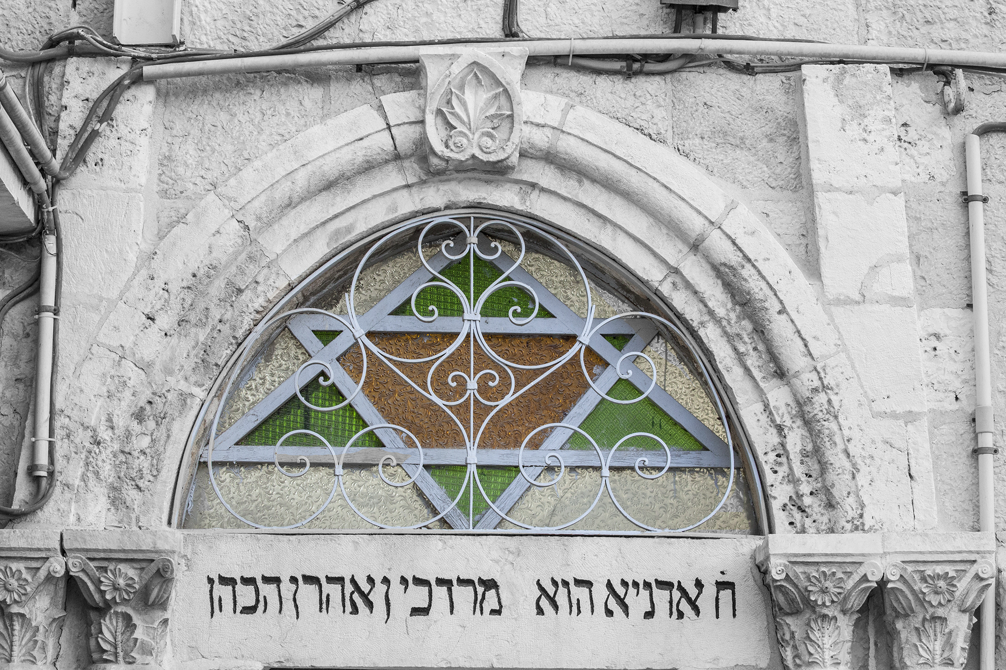 Jerusalem, Bukharim neighborhood, 16 Adoniyahu hacohen street, The Haji Adoniyah synagogue (located in a courtyard, cannot be seen from the street) Photoshop: B&W with selective color Bukharan Synagogue from 1892, Jerusalem the inscription reads : ח אדניא הוא מרדכין אהרן הכהן Haj Adoniyahu Mordekhin Aaron ha-Kohen